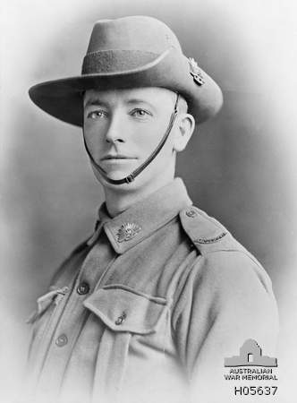 Corporal Thomas James Wright (1882-1916), was born on 23 August 1882 at 89 Islington Street, Collingwood. A slater and tiler by trade, he also played senior Australian rules football for the Collingwood Football Club in the VFL competition (4 games in 1906, and 8 games in 1907). In 1908, he was working in New Zealand, and was appointed captain of the New Zealand Australian Rules football team that played in the 1908 Jubilee Australasian Football Carnival in Melbourne (he was one of New Zealand’s best players in that competition). In 1909, he returned to Melbourne, and was granted a permit to play with Prahran in the VFA Australian Rules competition. A corporal (he had been promoted to corporal on the field on 16 October 1916) in the 59th Battalion AIF (he had enlisted on 3 February 1915, and transferred from the 7th to the 59th Battalion on 4 August 1916), he was killed in action in the field on 12 December 1916 in France, and was buried at Delville Wood Cemetery.